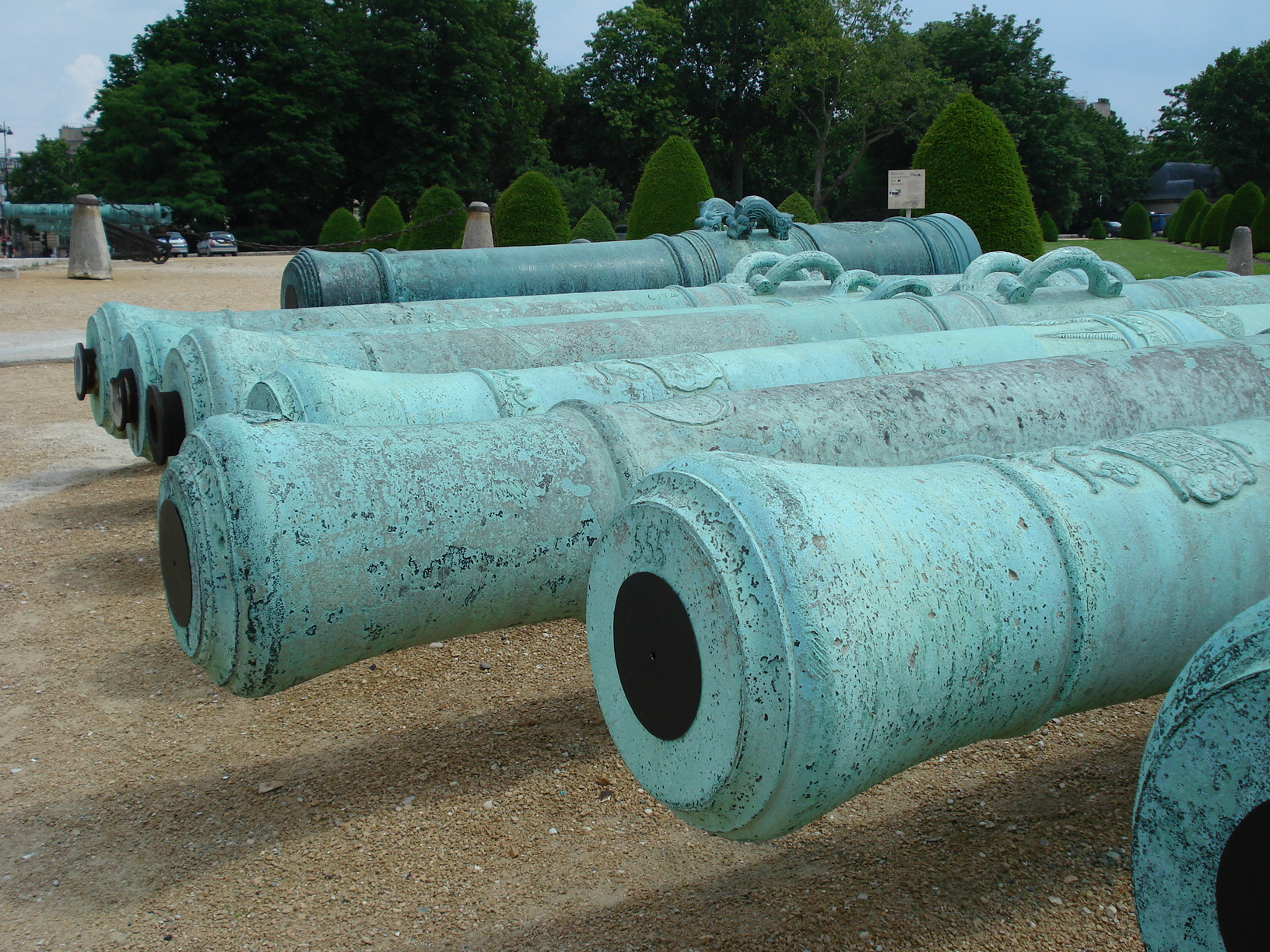 Bronze cannons in front of Les Invalides (Paris, France)